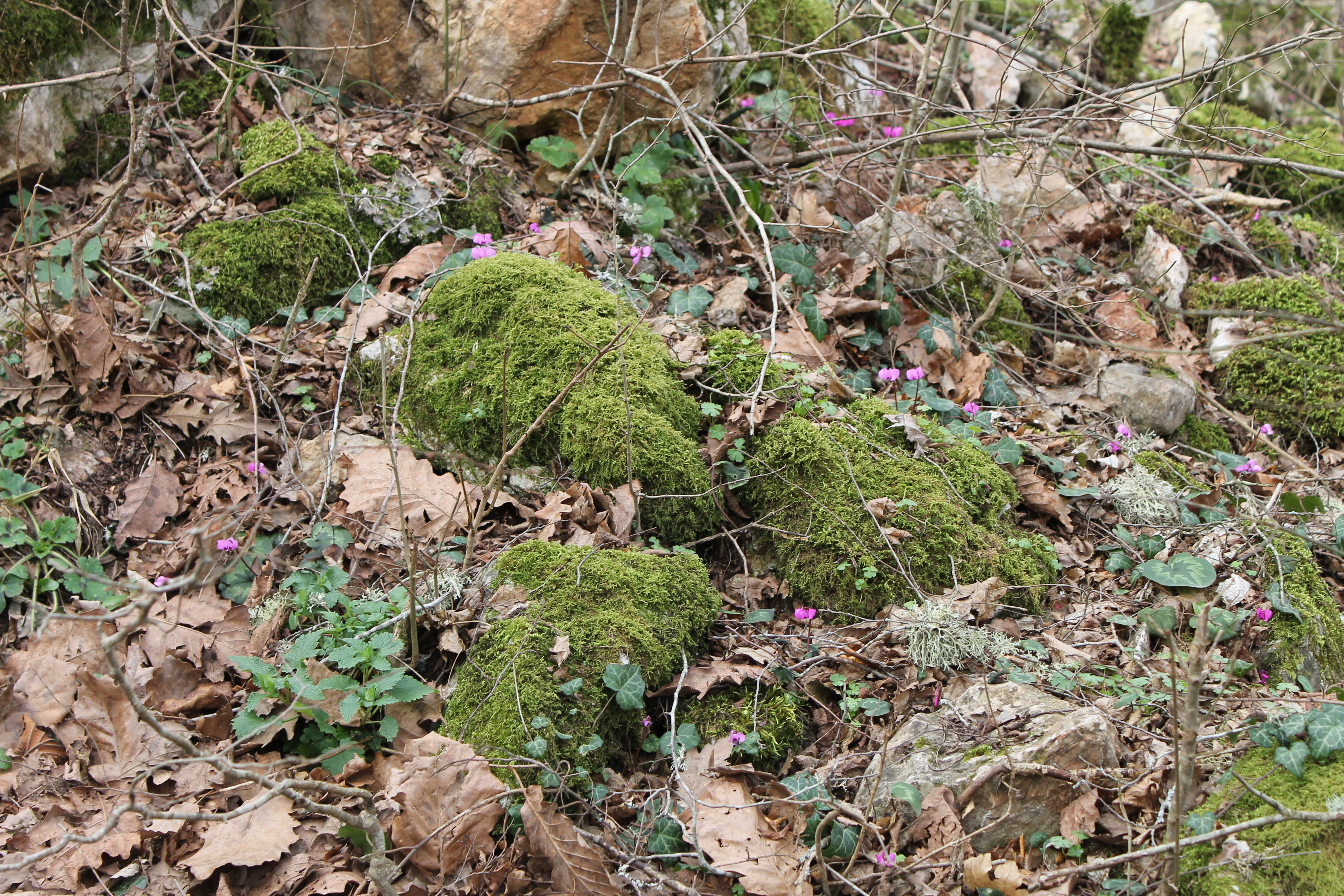 Strandzha Nature Park